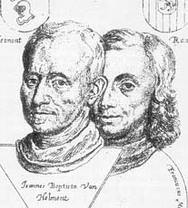 Etching of Joan Baptista Van Helmont (1579-1644) and his son Franciscus Mercurius Van Helmont (1614-1699), from J.B. Van Helmont, Ortus medicinae (Amsterdam: Elsevier, 1648)